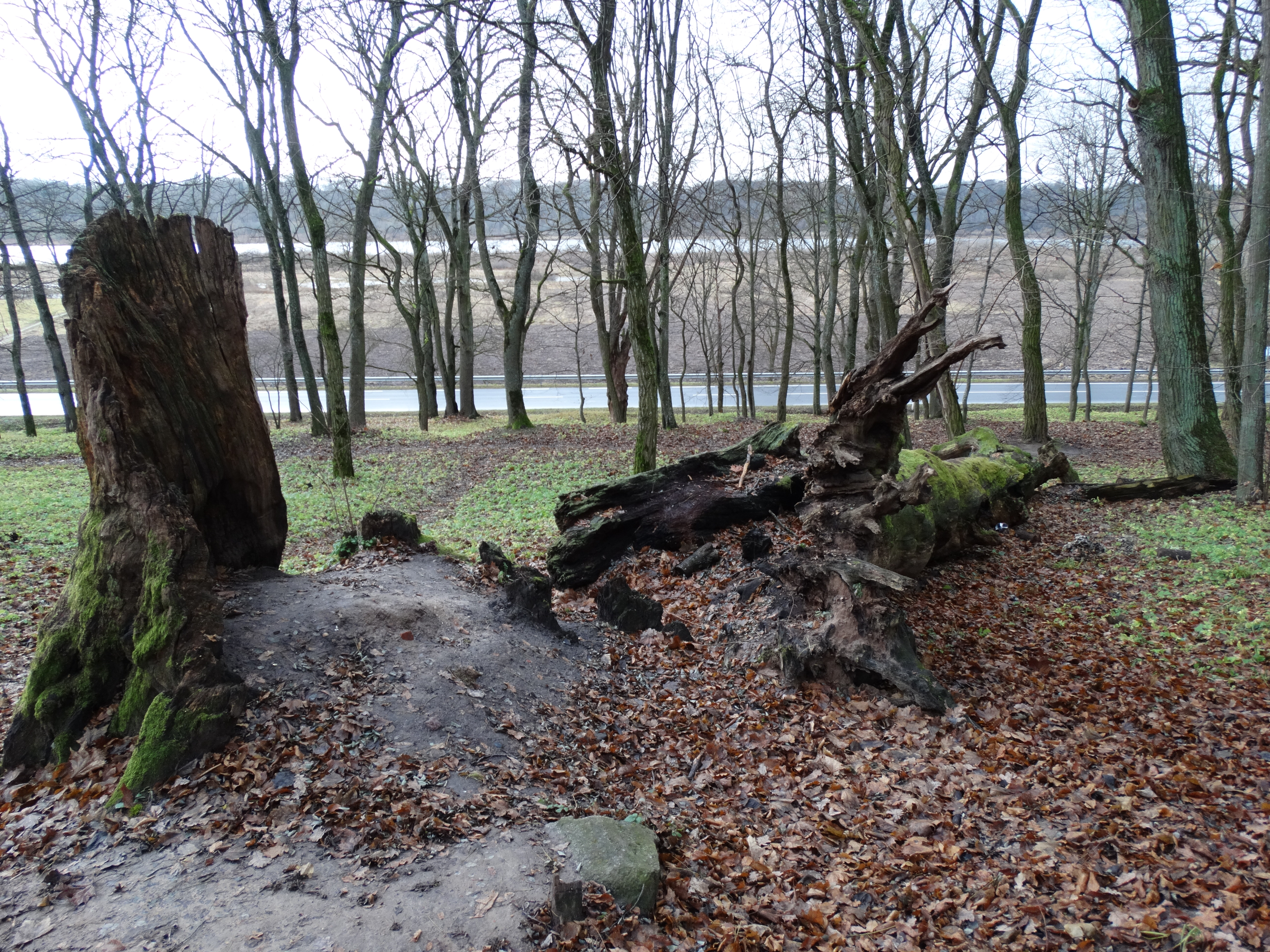 Remains of the Gediminas Oak, Raudonė, Jurbarkas district, Lithuania